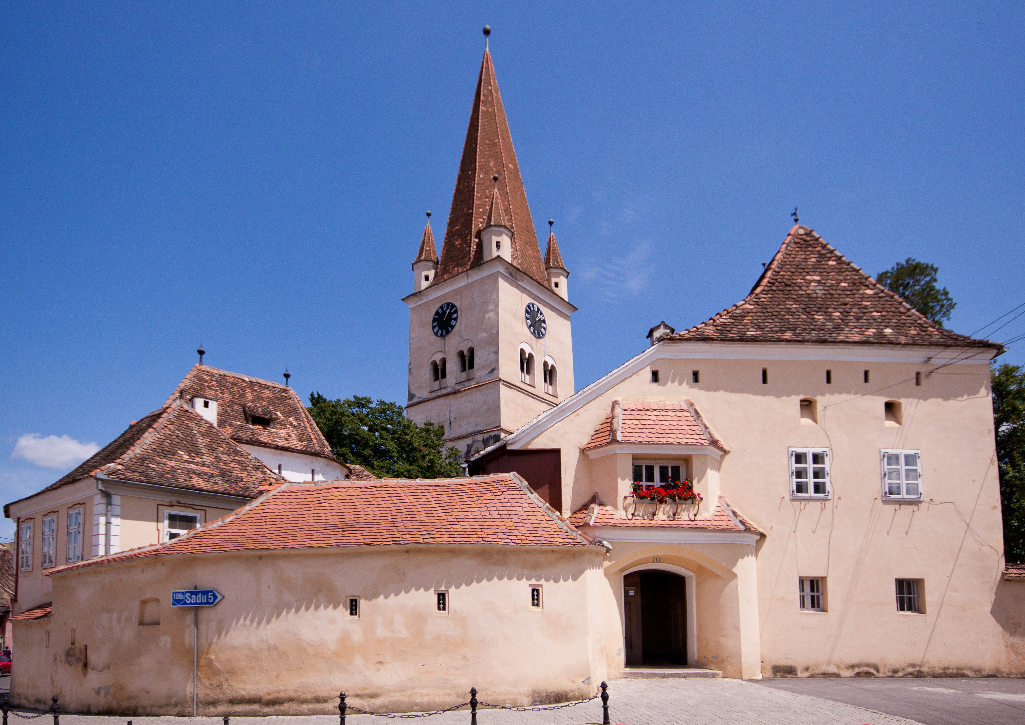 Cisnadie fortified church